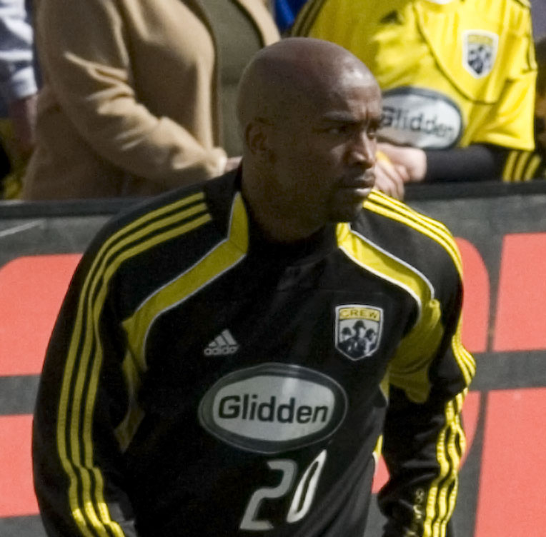 Emilio Rentería of the Columbus Crew photographed during team warm-ups before a game that took place at Columbus Crew Stadium, on March 27, 2010 vs Toronto FC.